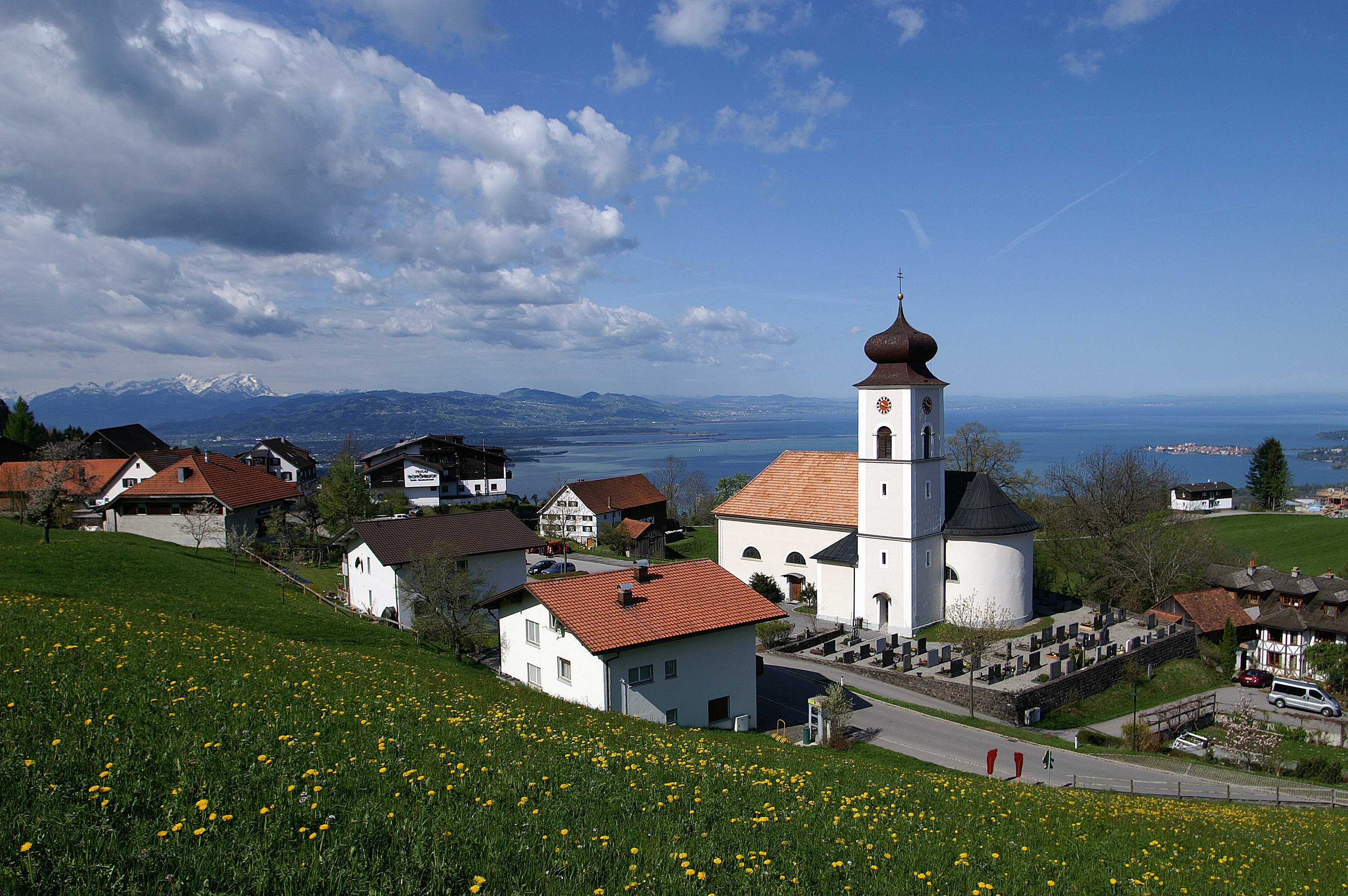 Overlooking the St. Bernard Parish Church at Eichenberg (Vorarlberg), of Lake Constance and the Swiss mountains of Alpstein. Right in the picture: Lindau.